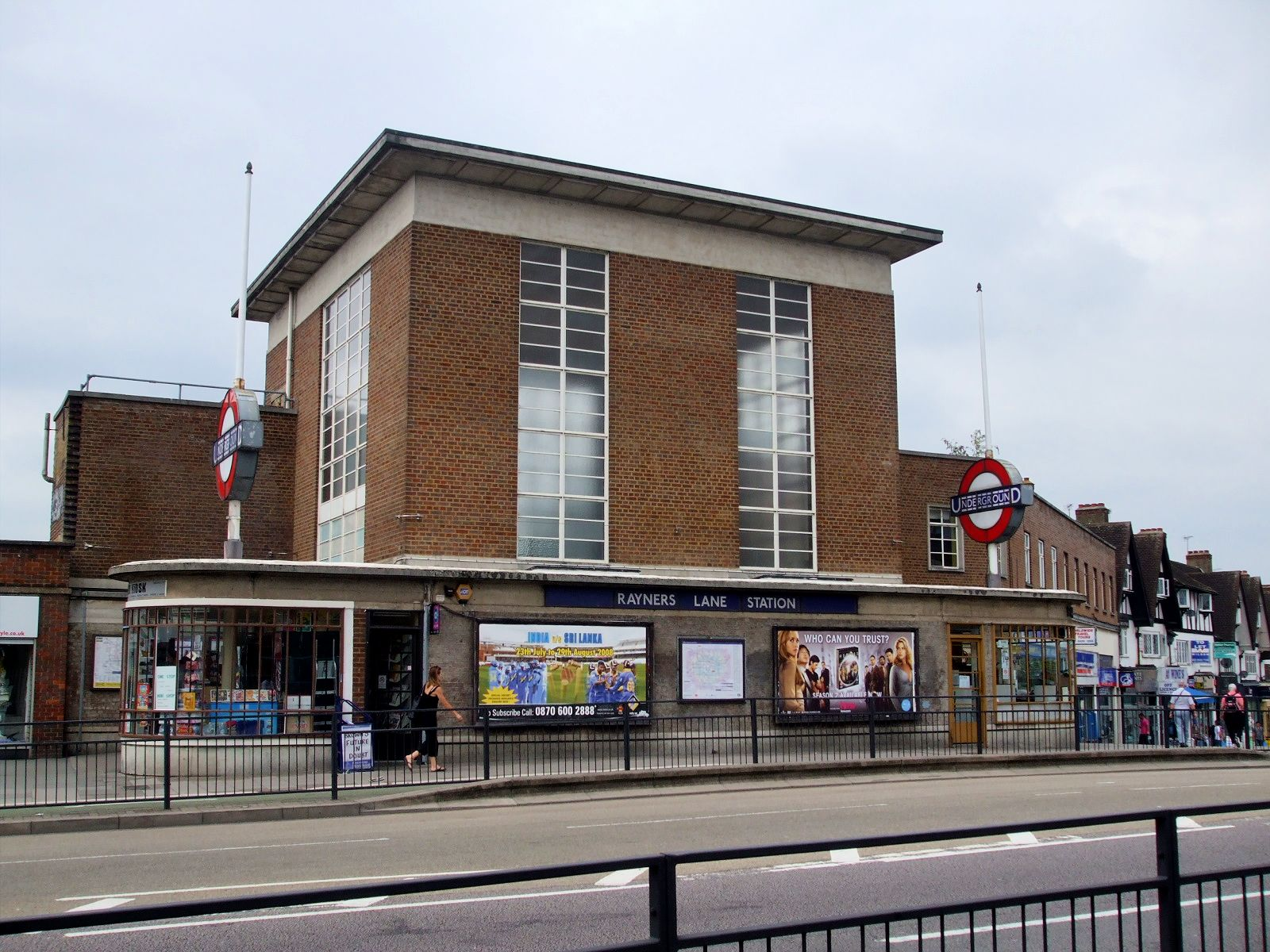 Rayners Lane tube station